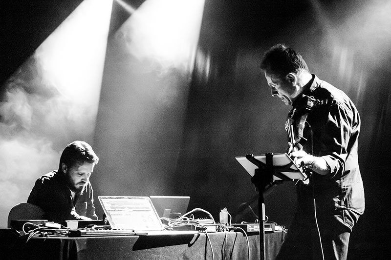 John Paul Jones duo MINIBUS PIMPS with Helge Sten, Aarhus Denmark 2012